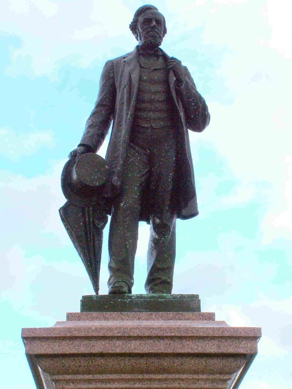 This statue of George Palmer, of Huntley & Palmer's Biscuits fame stands in Palmer Park in Reading U.K.